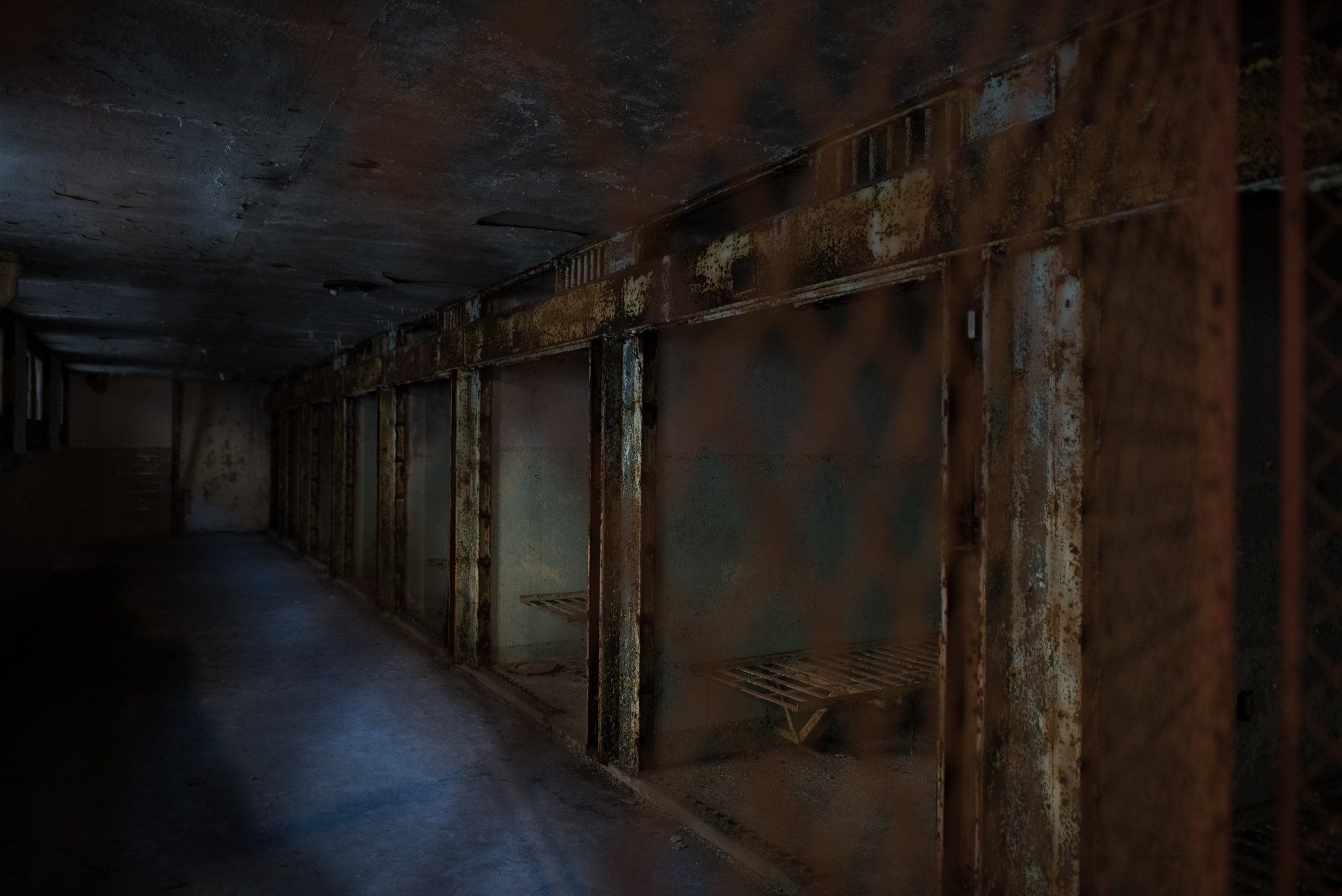 Death Row at ESP